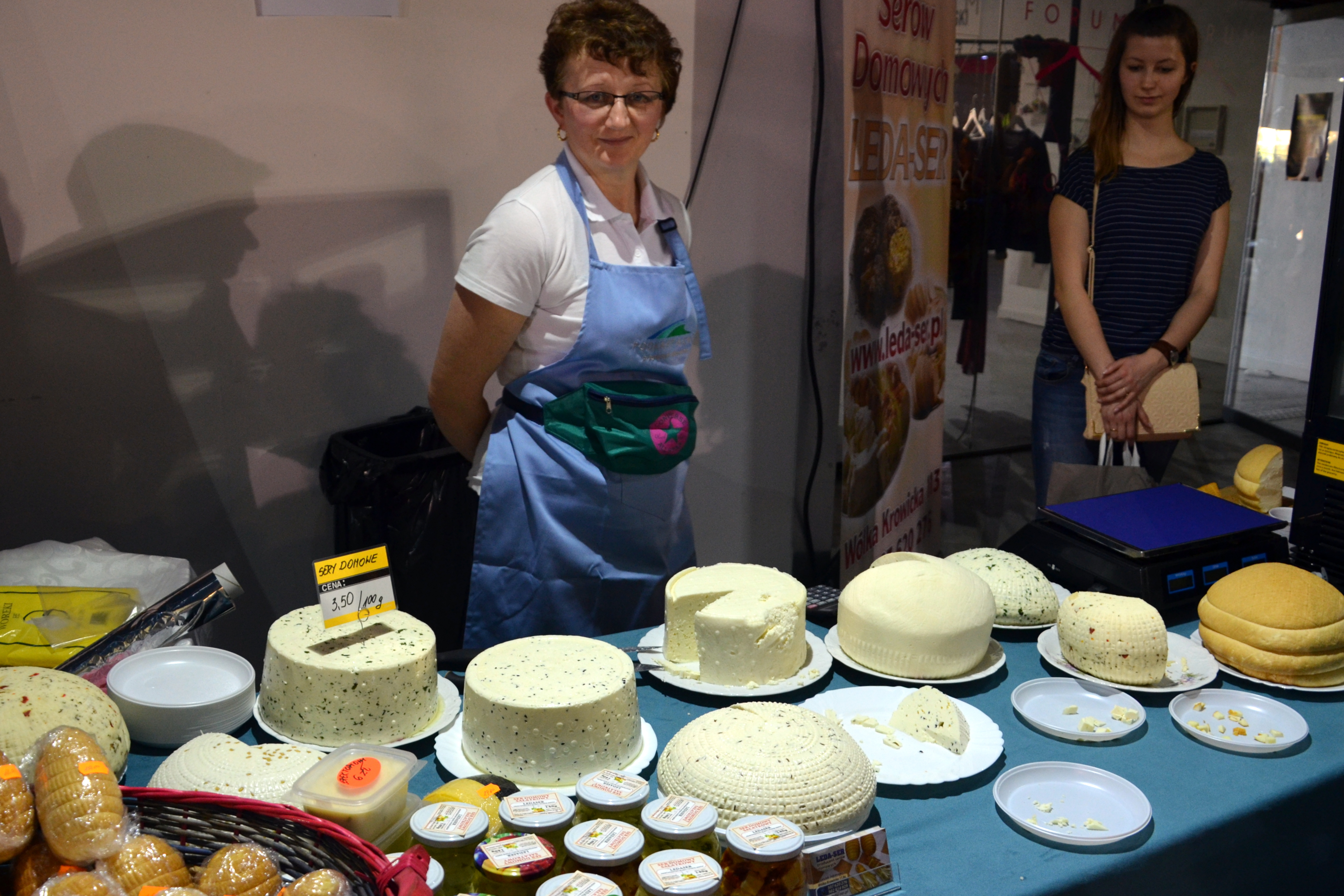 Käsestand mit Verkäuferin